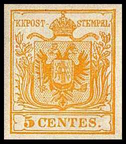 Lombardy-Venice 1850 reprint. Probably made between 1866 and 1894 (7 official reprints known in this period).